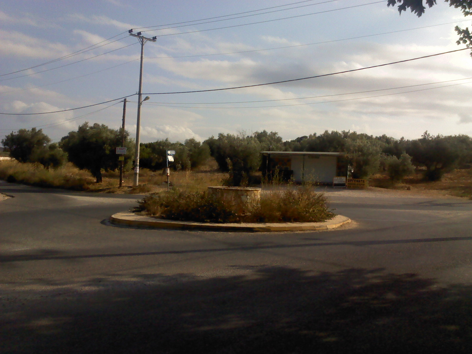 Square with well at Spata